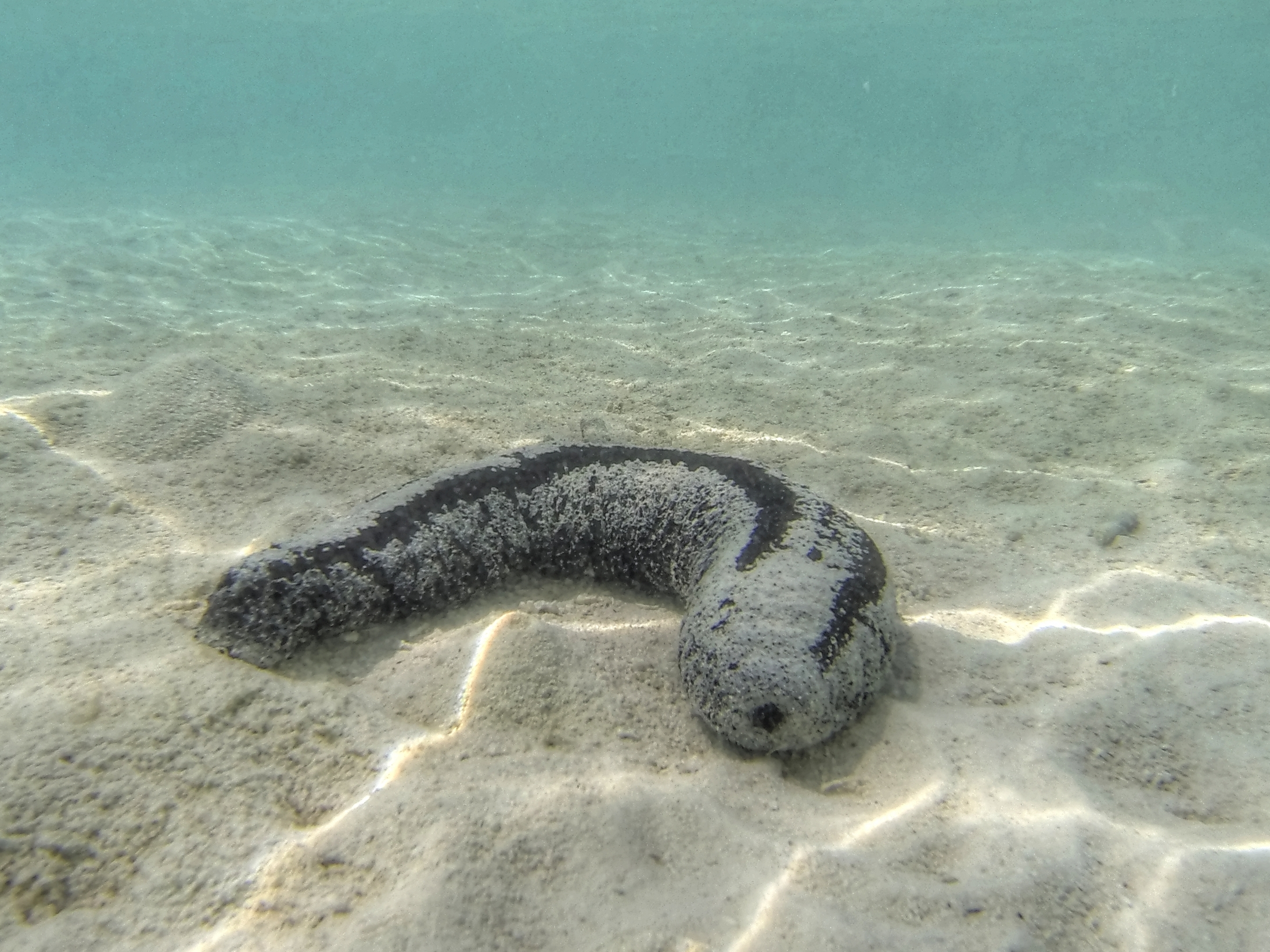 Sea cucumber, Maldives